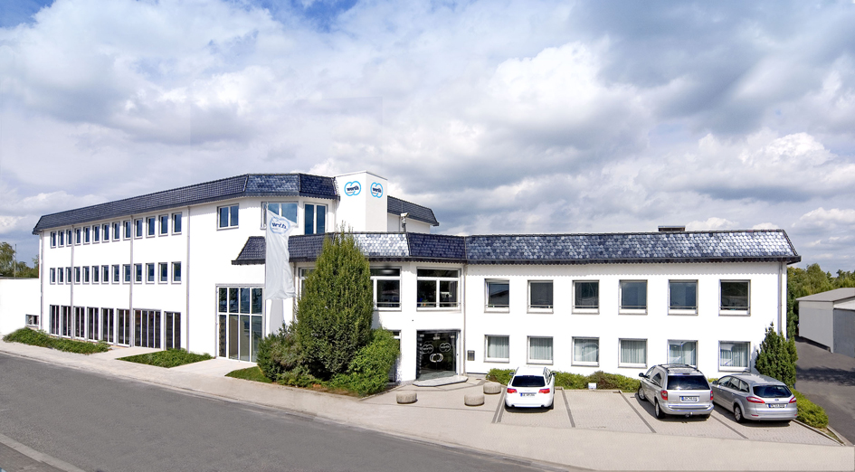 Werth Messtechnik GmbH